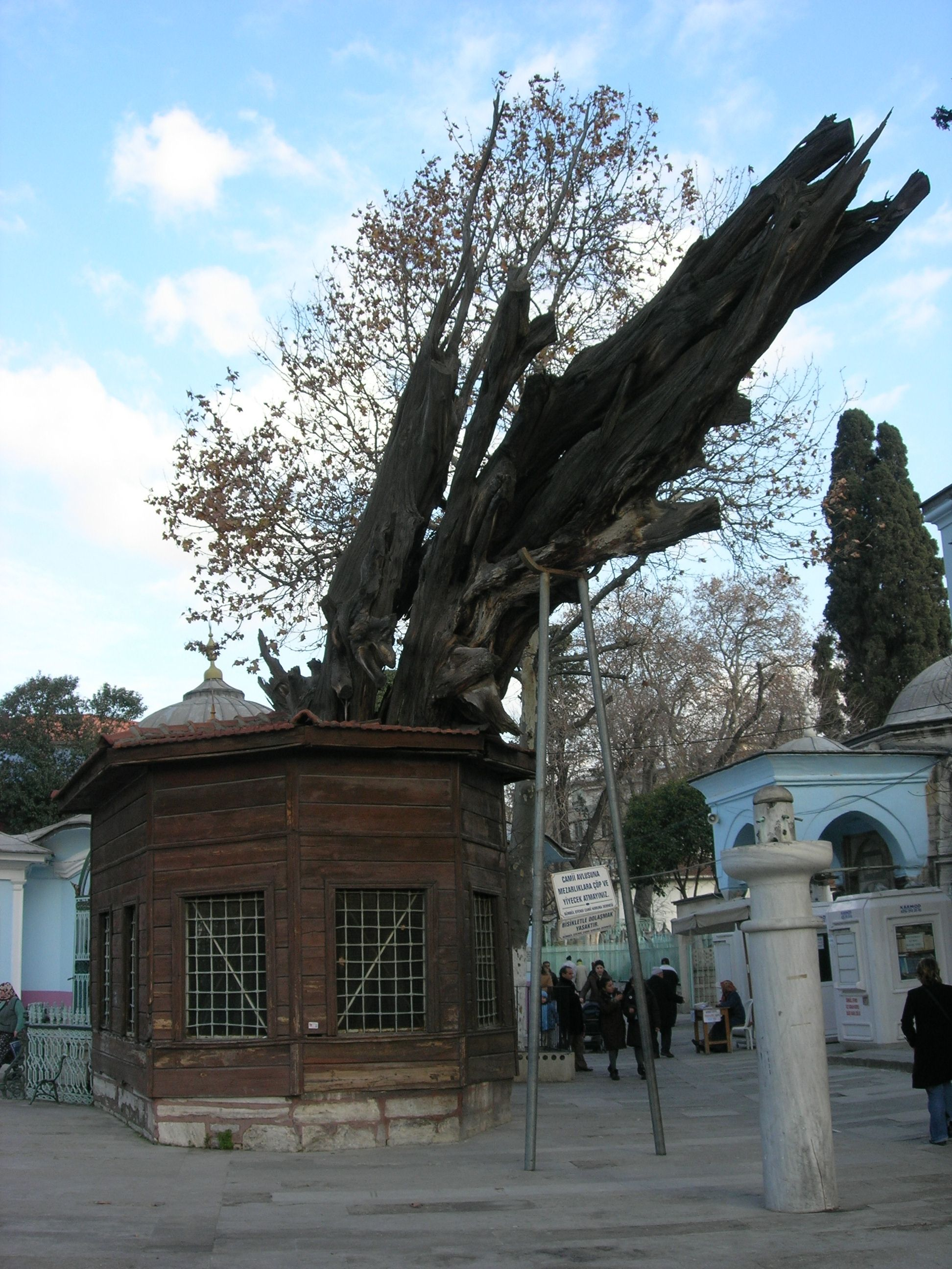 The dead Cypress where the "lie detector" chain is hung, near the mosque of Koca Mustafa Pasha in Istanbul